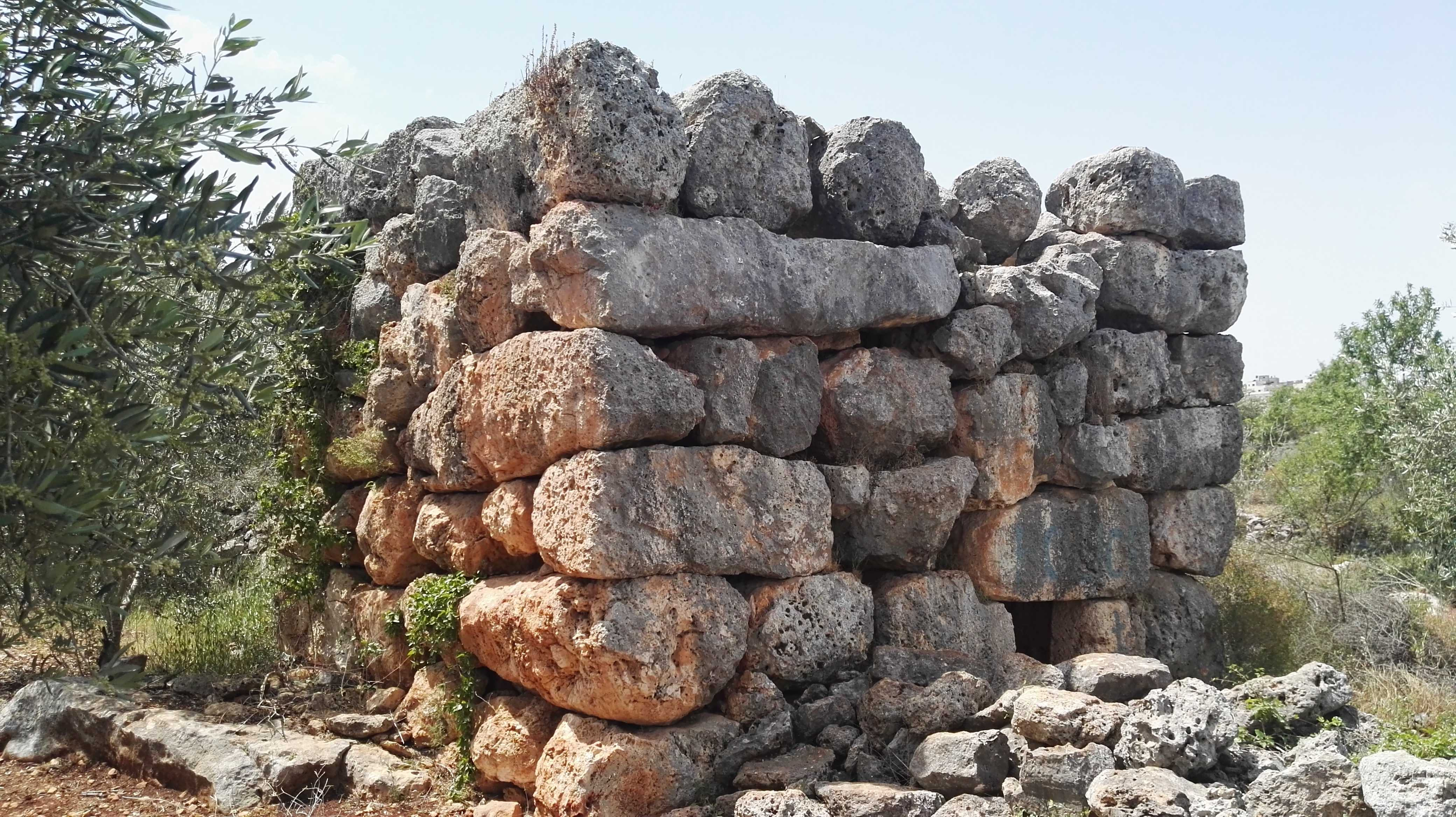 Remains of an ancient guard tower known as Qasr Sabakh, near Qarawat Bani Hasan, West Bank, Palestine.